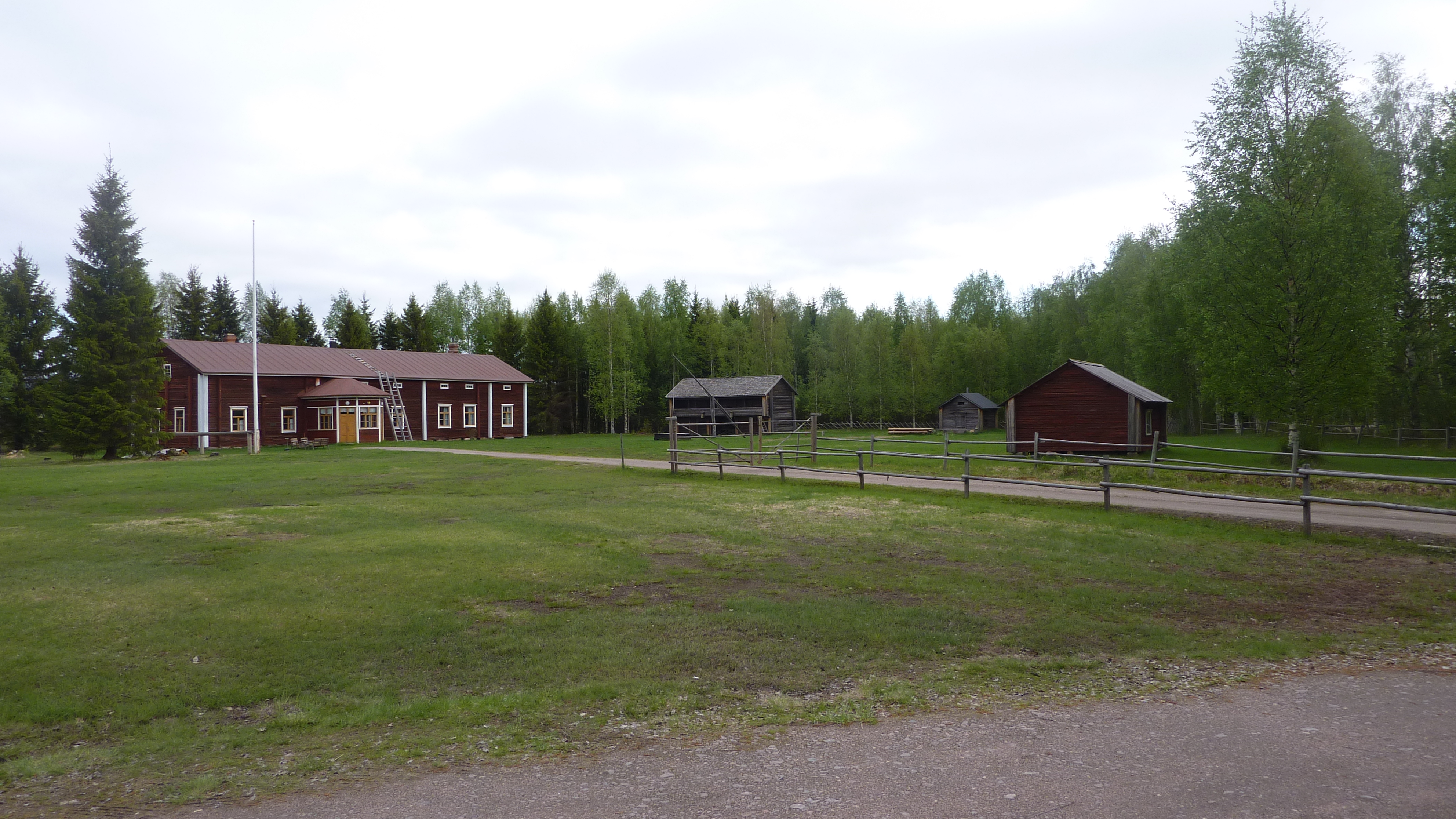 Local history museum of Tyrnävä